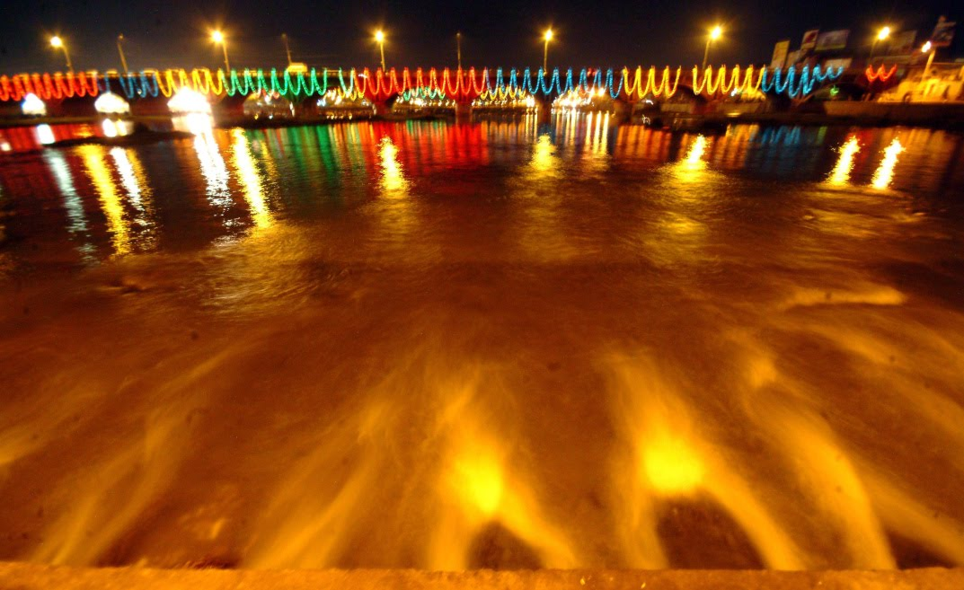 Vaigai River during Chithirai Festival